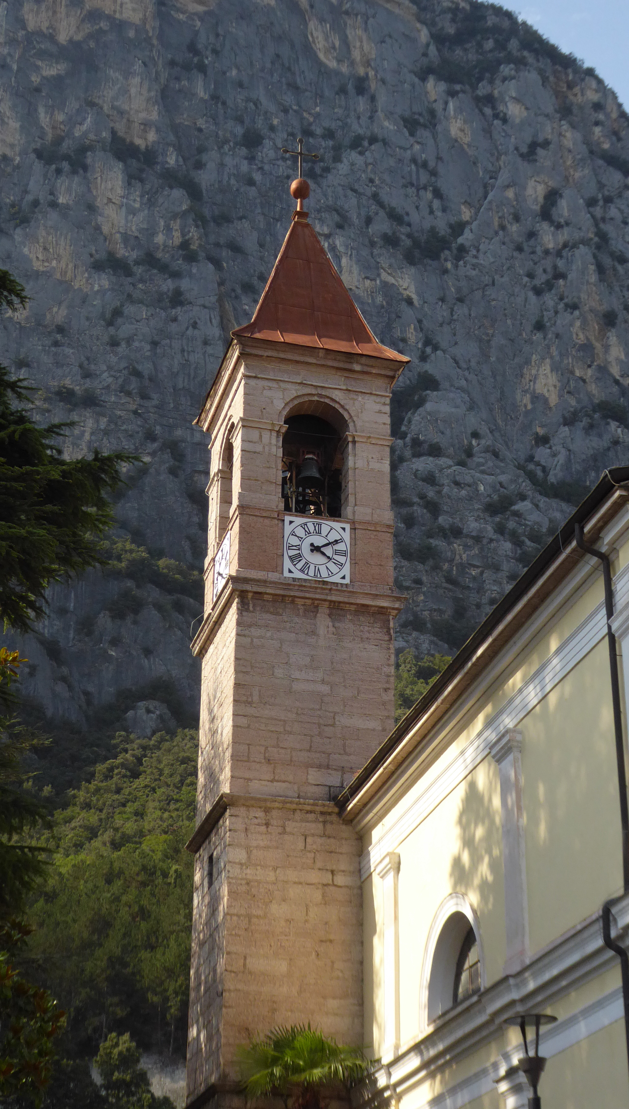 Sarche (Madruzzo, Trentino, Italy), Our Lady of Mount Carmel church - Belltower